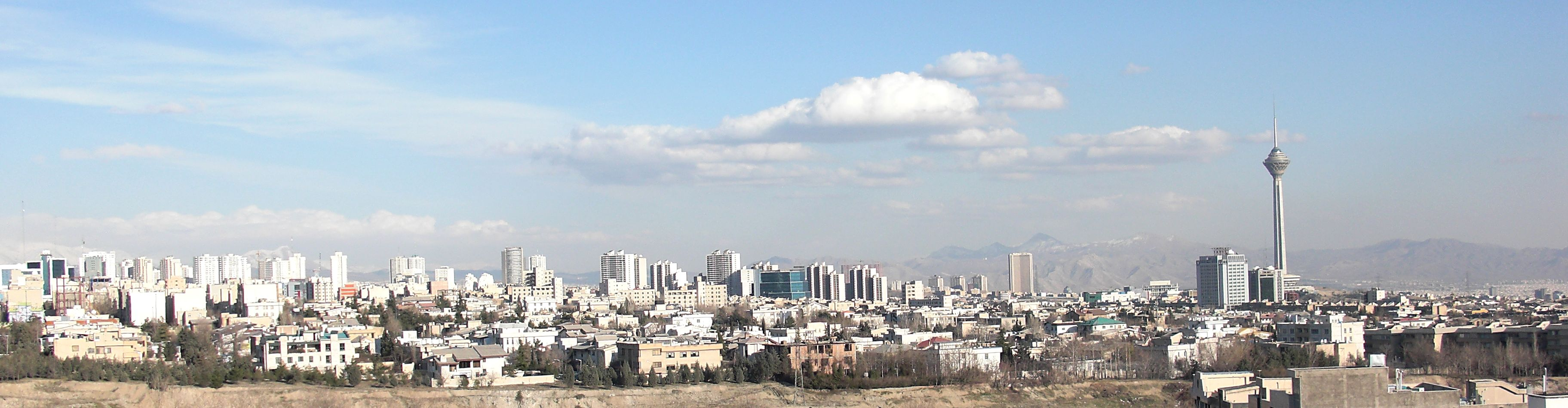 Tehran panorama in winter. (in right part of this panorama photo you can see Milad Tower and Tehran International Tower.)